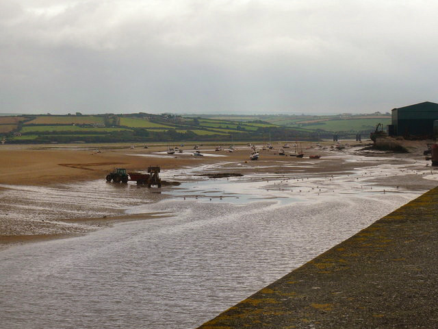 Collecting sand at low tide There used to be a sand dredger that supplied sand for building and farming when it was necessary to keep a reasonable channel across the Doom Bar. Sand is now collected using a tractor and trailer just outside the harbour wall.